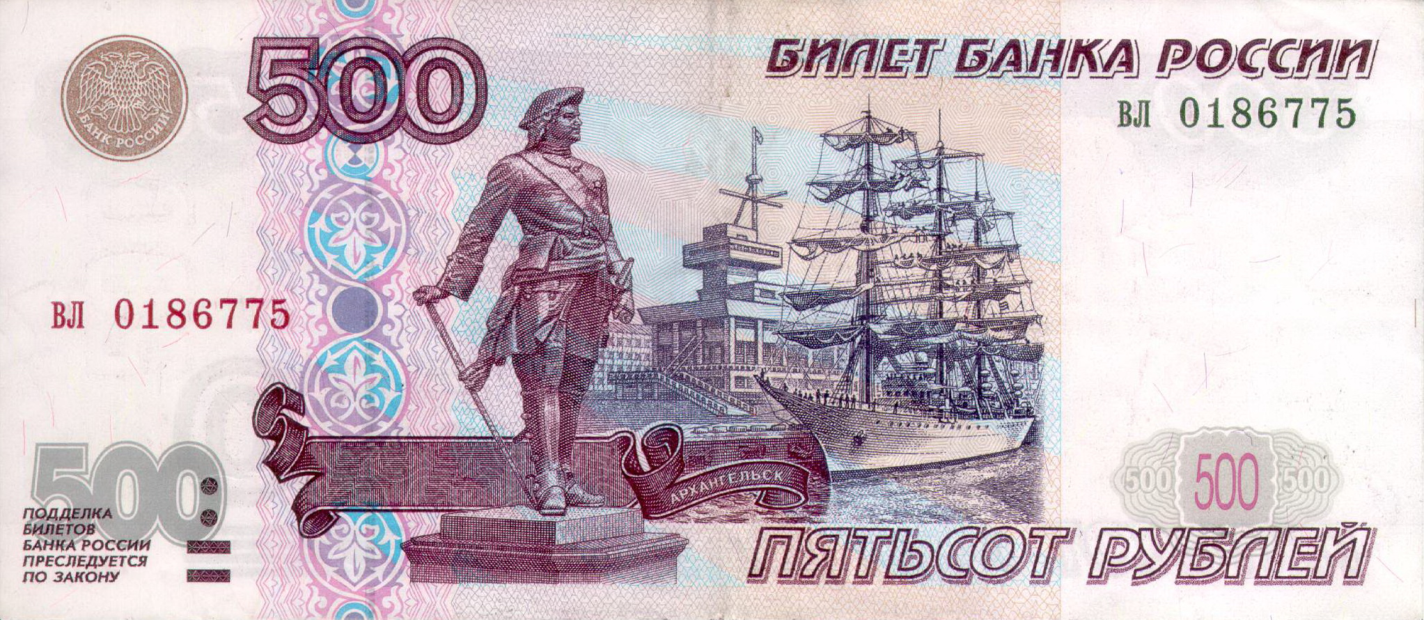 Russian banknote. 500 rubles. Version of 1997 year. Front